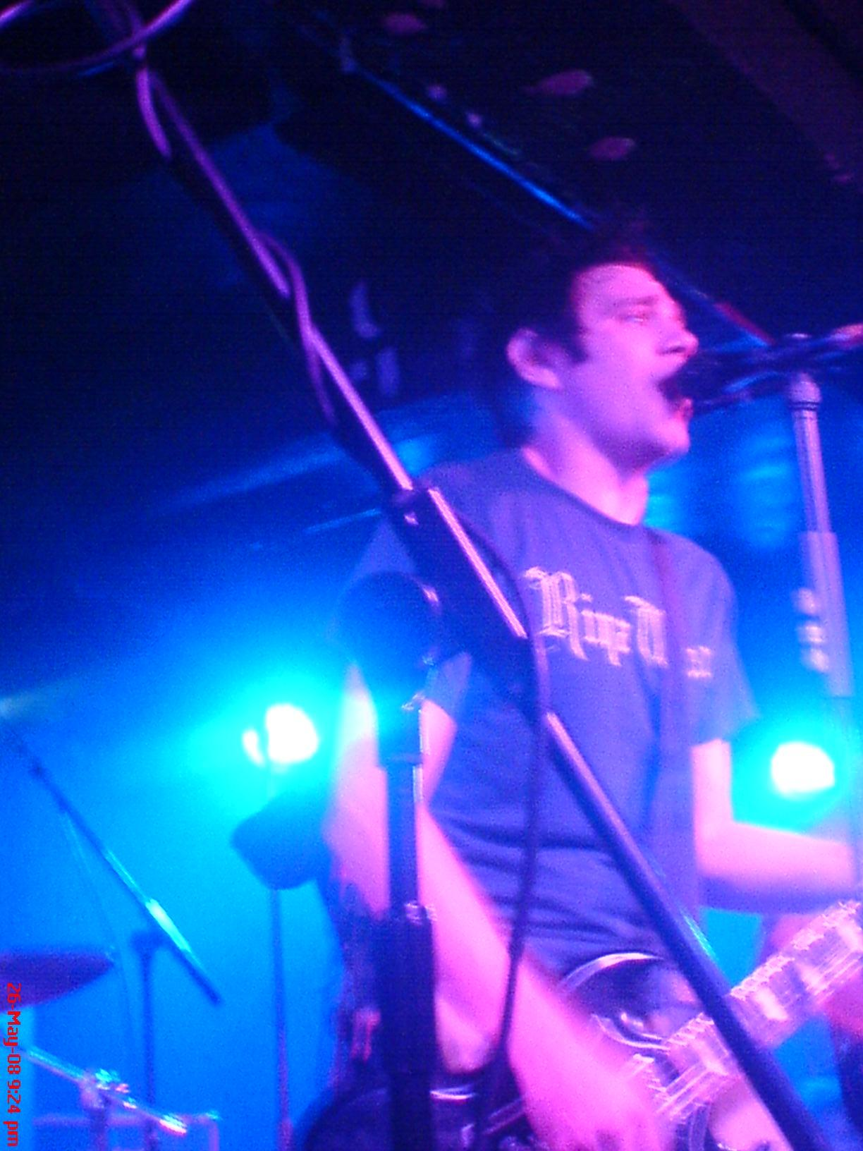 matty from zebrahead at manchester academy 3